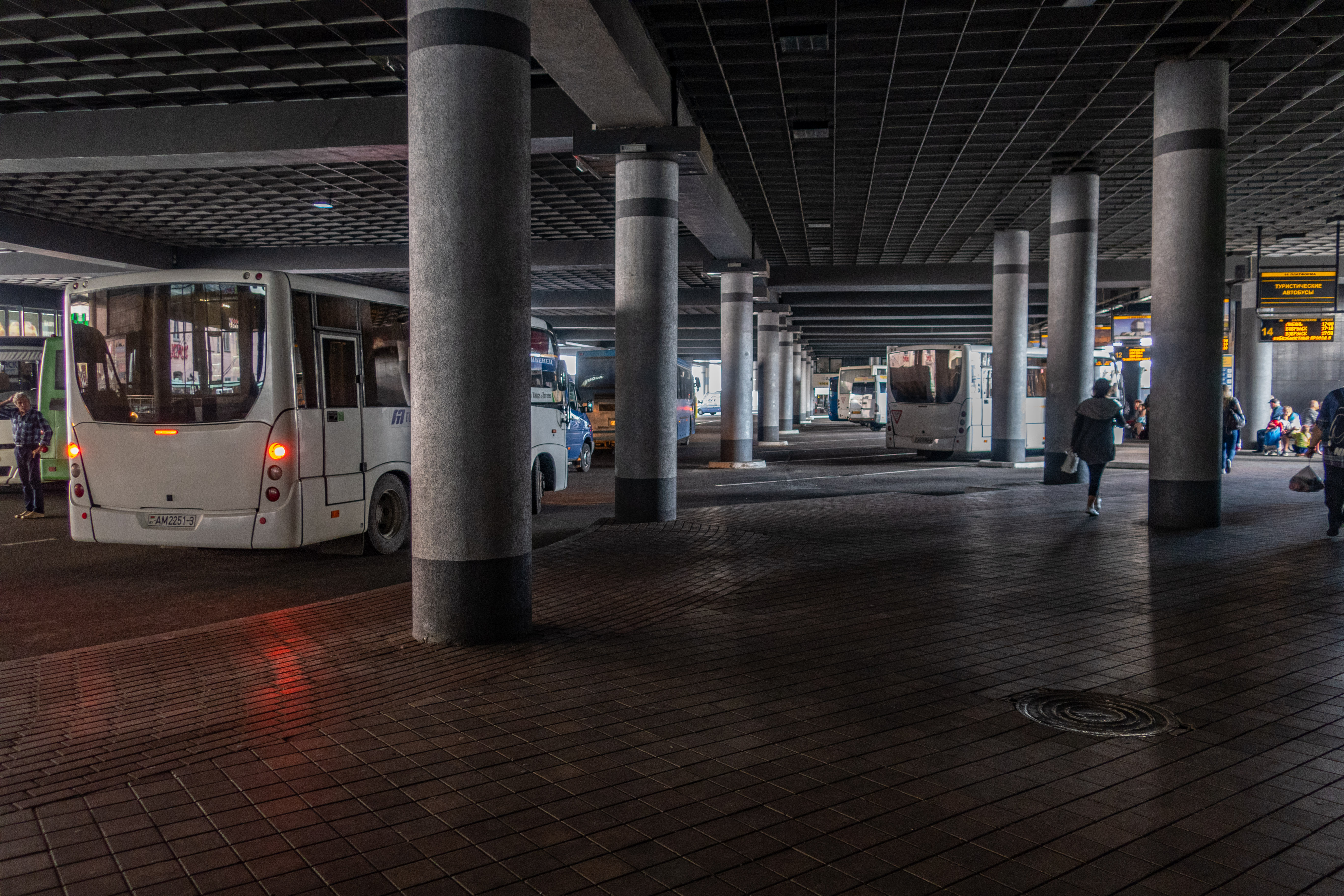 "Centralny" bus station after reconstruction. Minsk, Belarus